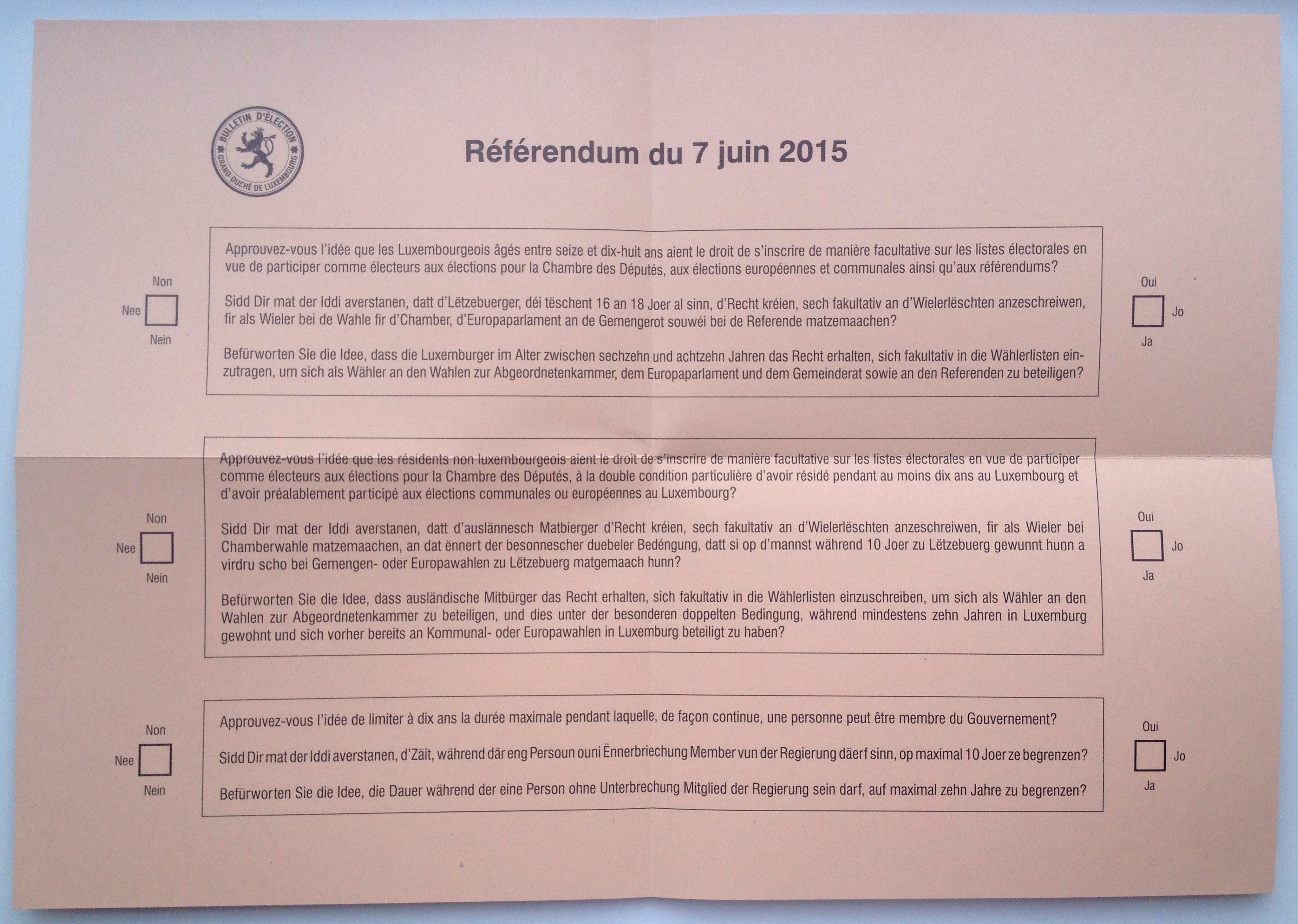 Voting ballot for the referendum on June 7, 2015, in the Grand-Duchy of Luxembourg.